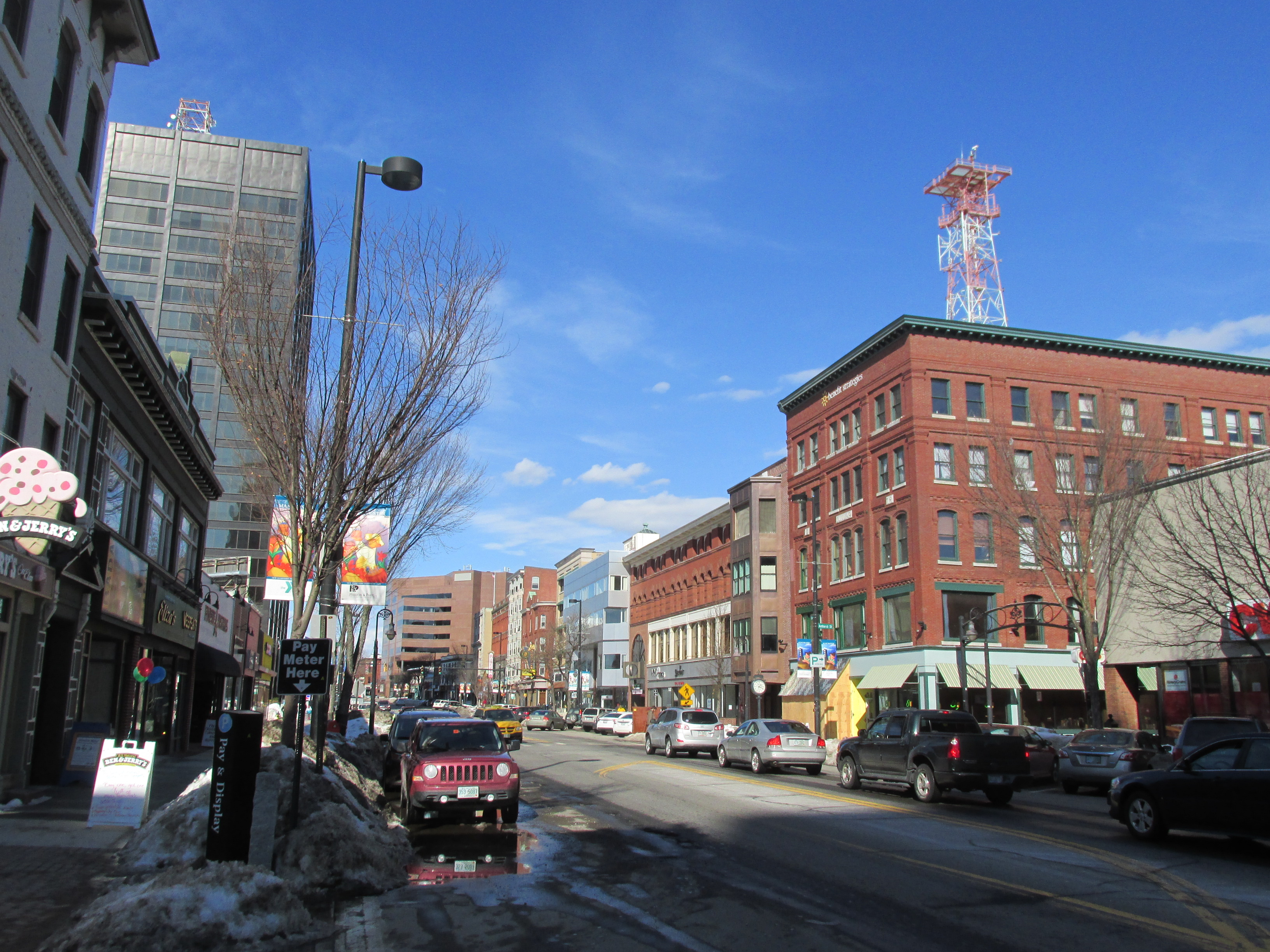 Elm Street, Manchester New Hampshire